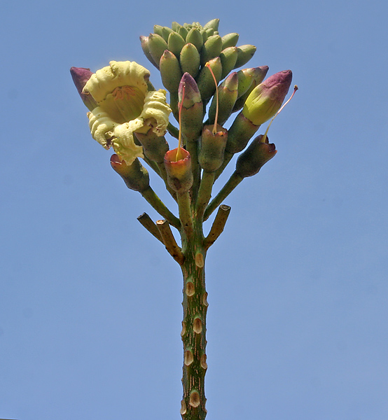 Oroxylum indicum (Syn. Bignonia indica, Calosanthes indica)- Broken bones tree, Tree of Damocles, Indian Trumpet Flower, Sonpatha, Midnight horror • Hindi: भूत वृक्ष bhut-vriksha, दीर्घवृन्त dirghavrinta, कुटन्नट kutannat, मण्डूक manduk (the flower), पत्रोर्ण patrorna, पूतिवृक्ष putivriksha, शल्लक shallaka, शूरण shuran, सोन or शोण son, वटुक vatuk • Manipuri: শম্বা Shamba • Marathi: टायिटू tayitu, टेटु tetu • Tamil: சொரிகொன்றை cori-konnai, பாலையுடைச்சி palai-y-utaicci, பூதபுஷ்பம் puta-puspam (the flower) • Malayalam: പലകപയ്യാനി palaqapayyani, വാശ്പ്പാതിരി vashrppathiri, വെള്ളപ്പാതിരി vellappathiri • Telugu: మండూకపర్ణము manduka-parnamu, పంపెన pampena, శూకనాసము suka-nasamu, తుందిలము tundilamu • Kannada: ತಟ್ಟುನ tattuna • Konkani: davamadak • Bengali: সোনা sona • Oriya: टटेलों tatelo • Assamese: তোগুনা Toguna • Sanskrit: अरलु aralu, श्योनक shyonaka - in Herbal Garden, in Rangareddy district of Andhra Pradesh, India.